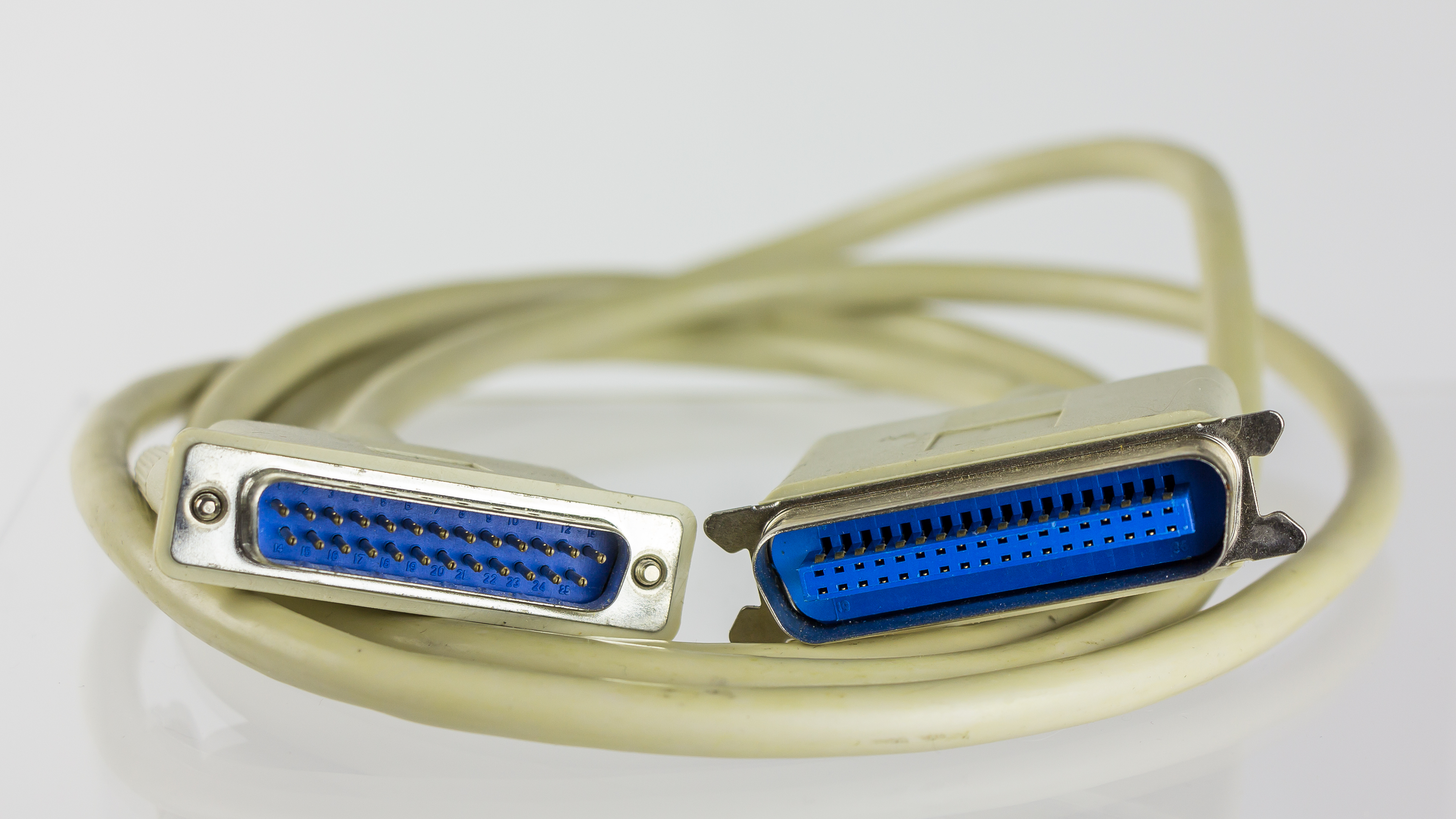 IEEE 1284 printer cablel, type AB